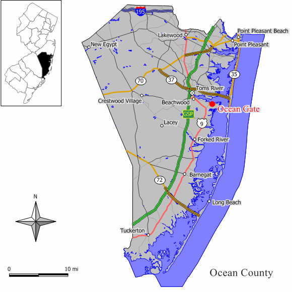 Source: Jim Irwin Original work by Jim Irwin, December 2005.